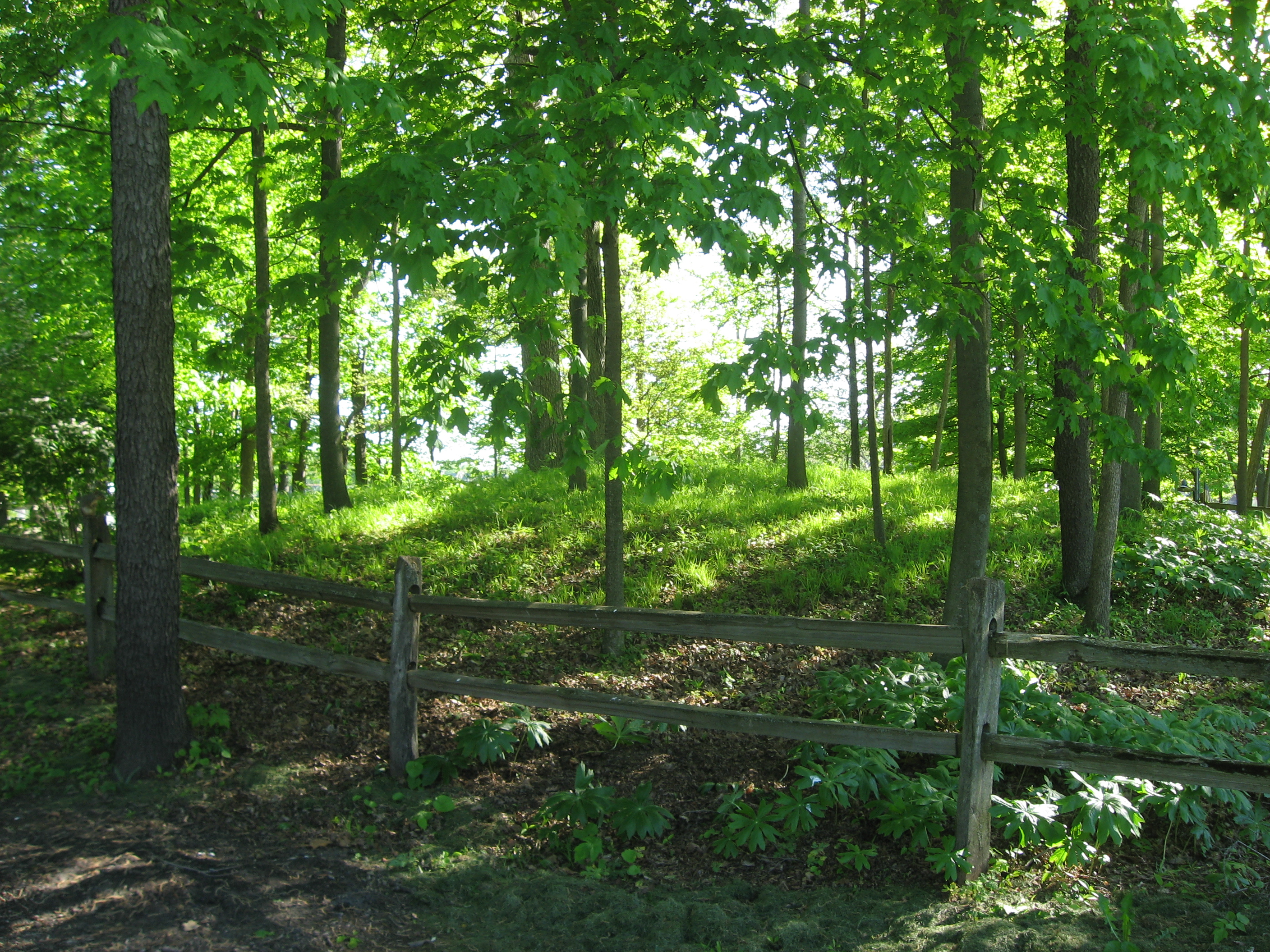 Northeastern side of the Dunns Pond Mound, located near the Dunns Pond cove of Indian Lake in northern Washington Township, Logan County, Ohio, United States. It lies on the southern side of Mound Avenue near its intersection with Mohawk Avenue in the community of Moundwood. Built by prehistoric Hopewell Native Americans, the mound is an archaeological site and is listed on the National Register of Historic Places.